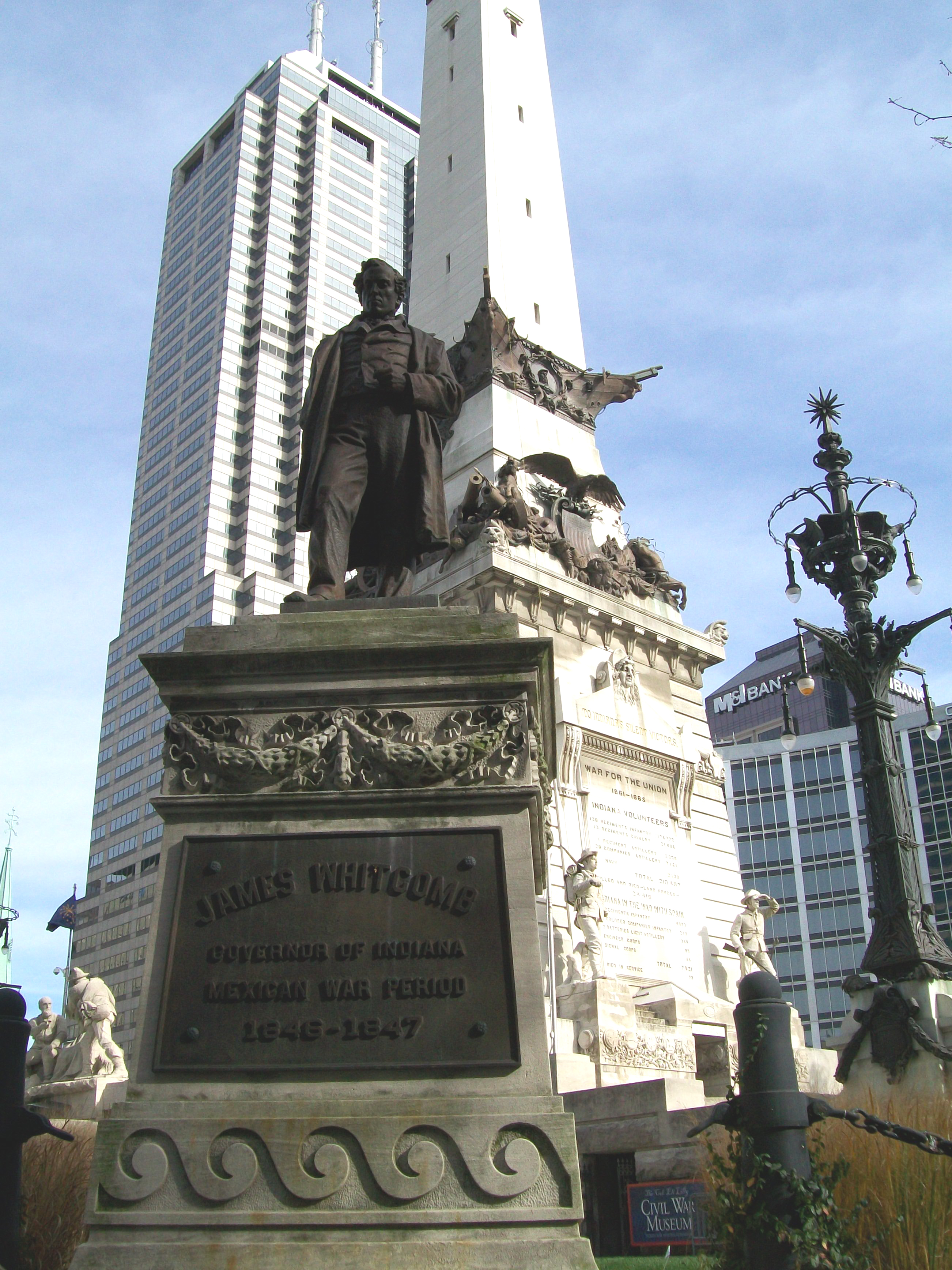 Statue of James Whitcomb (ca. 1899), by John H. Mahoney. Whitcomb was governor of Indiana during the Mexican-American War, and the namesake of James Whitcomb Riley.